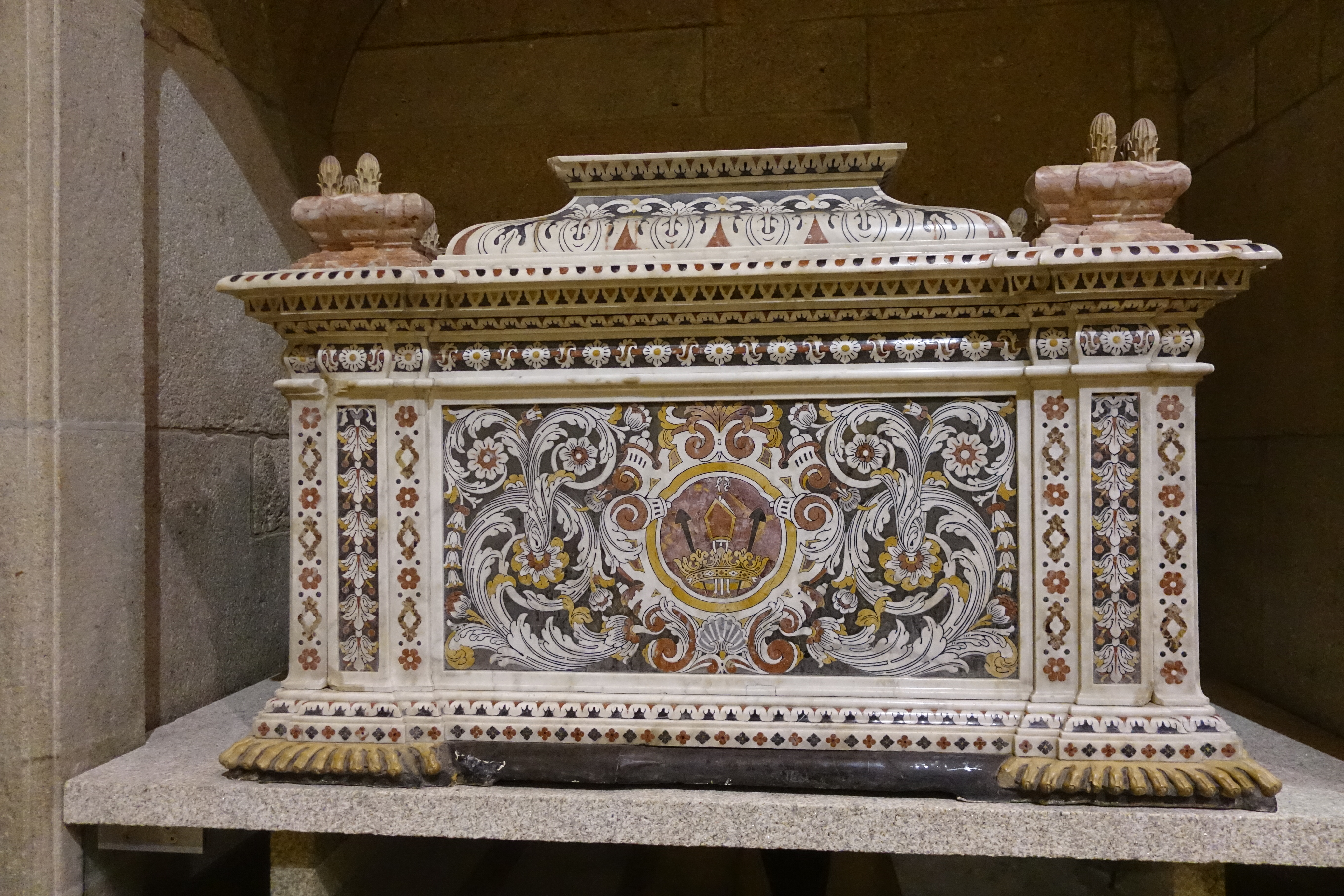 Interior of Church/Hospital of São Marcos (Braga) Portugal.